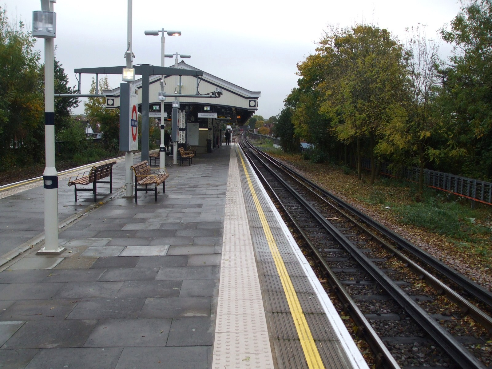 Brent Cross tube station looking south